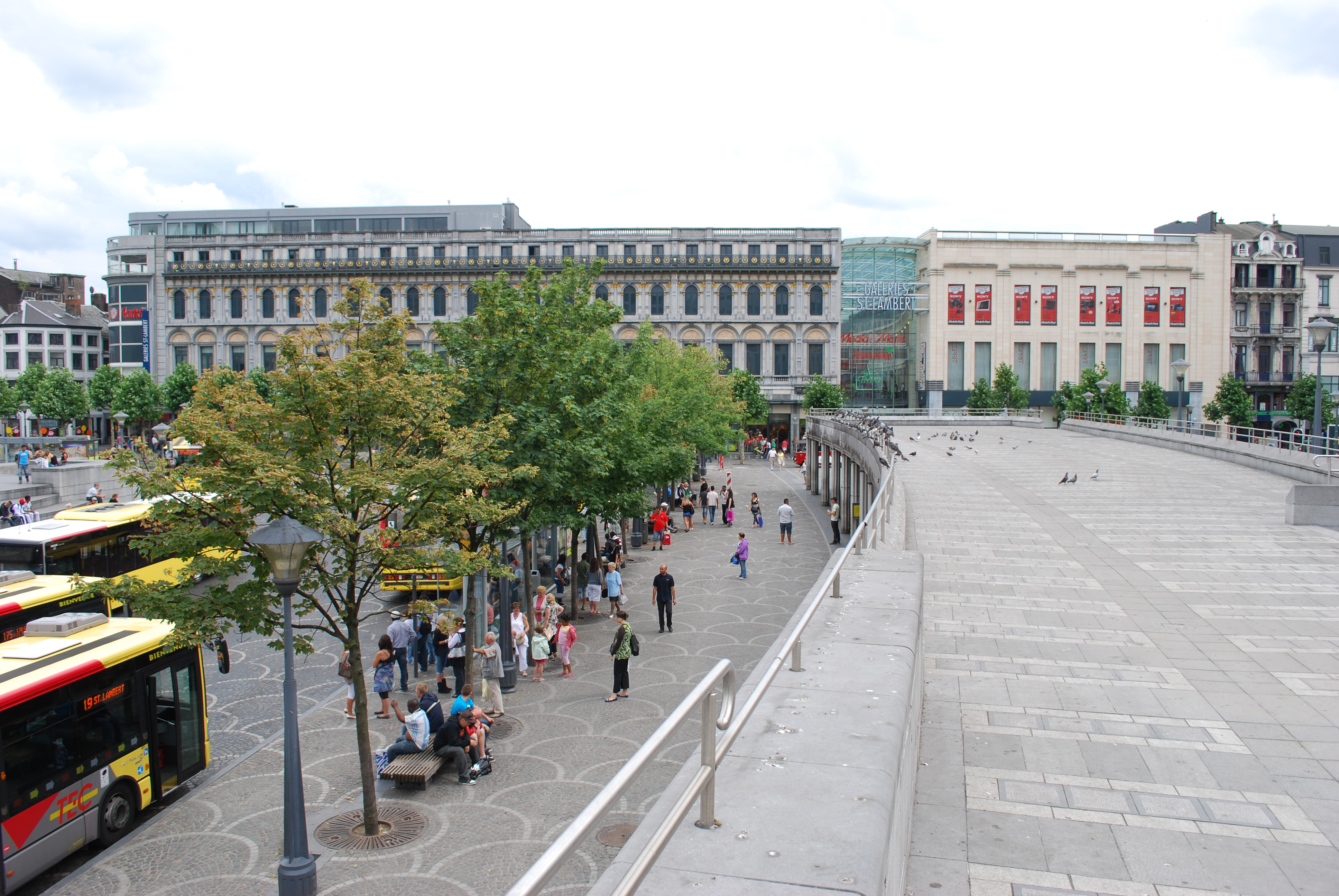 The St. Lambert Square in Liège, Belgium. This is also where the Liège attack on December 13, 2011, took place: The killer was standing on the platform on the right, where he attacked people waiting for the bus on the left with hand grenades and an FAL assault rifle, until he finally shot himself.